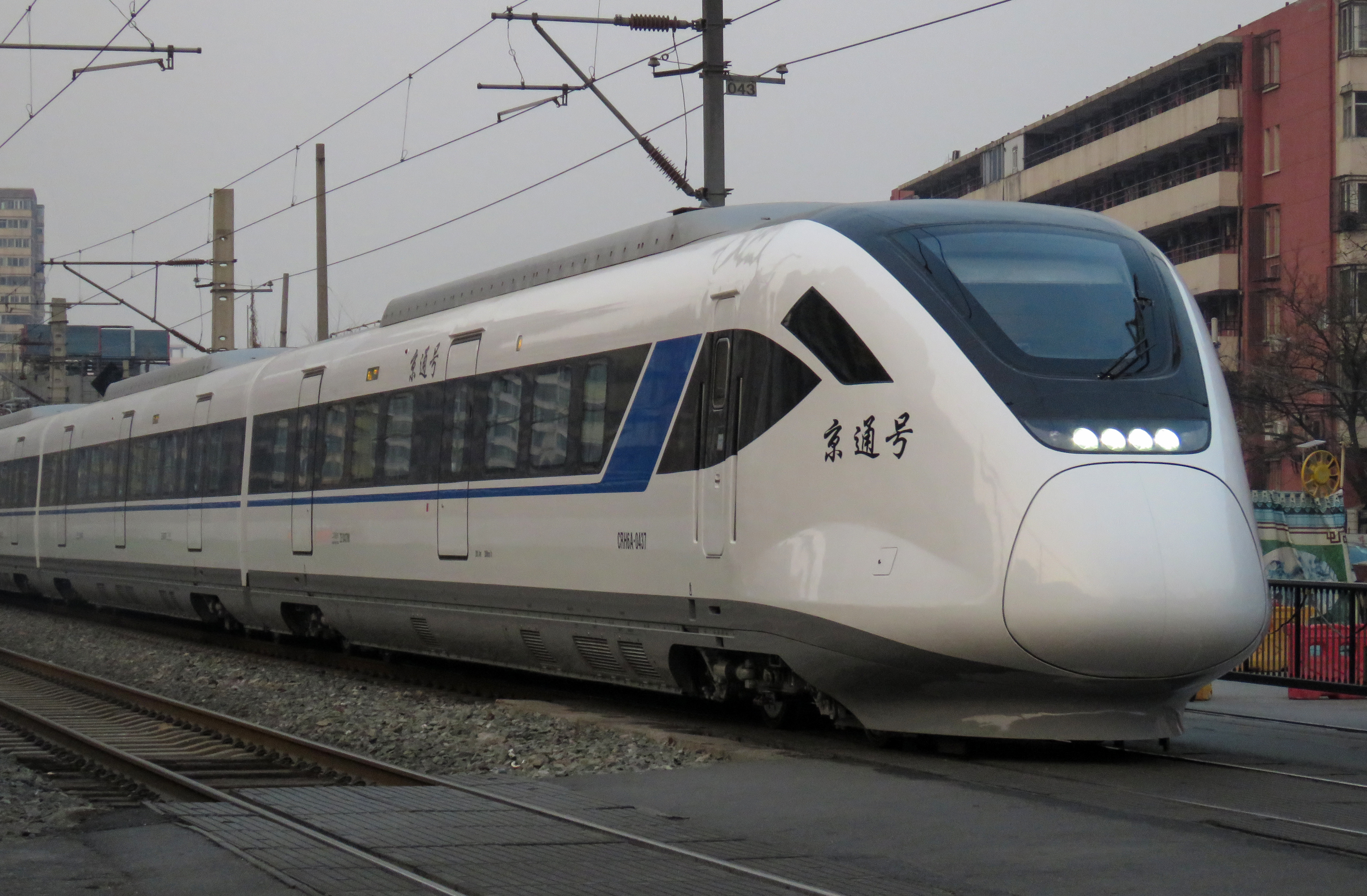 0075 to depot. Having heard "an EMU returning to depot will cross here", only to find this fellow unexpectedly. This is the rolling stock for the Sub-administrative Center Line, which would open, according to Zhou Zhengyu, on 31 December 2017, but its fare is still to be announced.